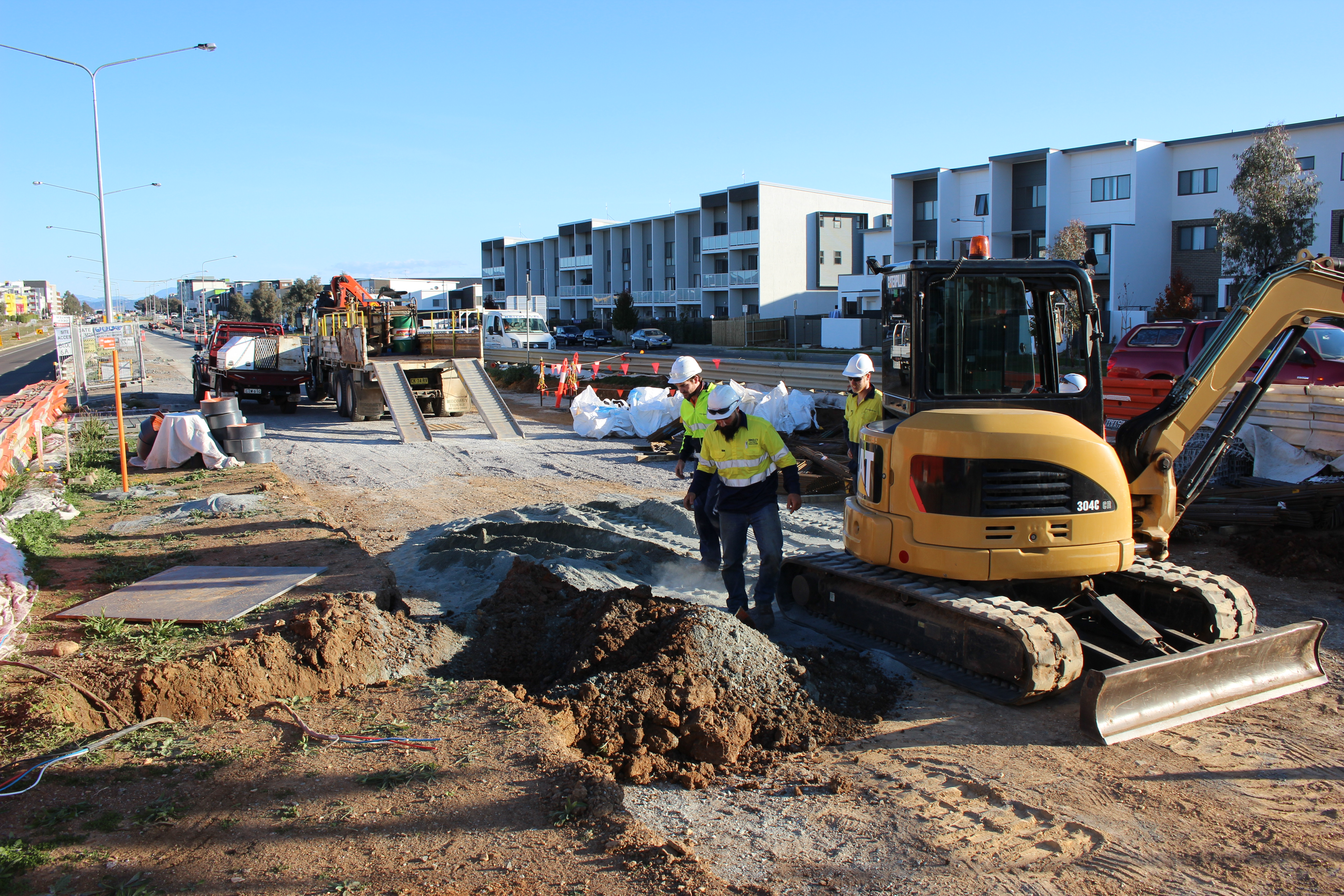 Canberra Light Rail construction in Harrison/Frankin, 16 May 2017